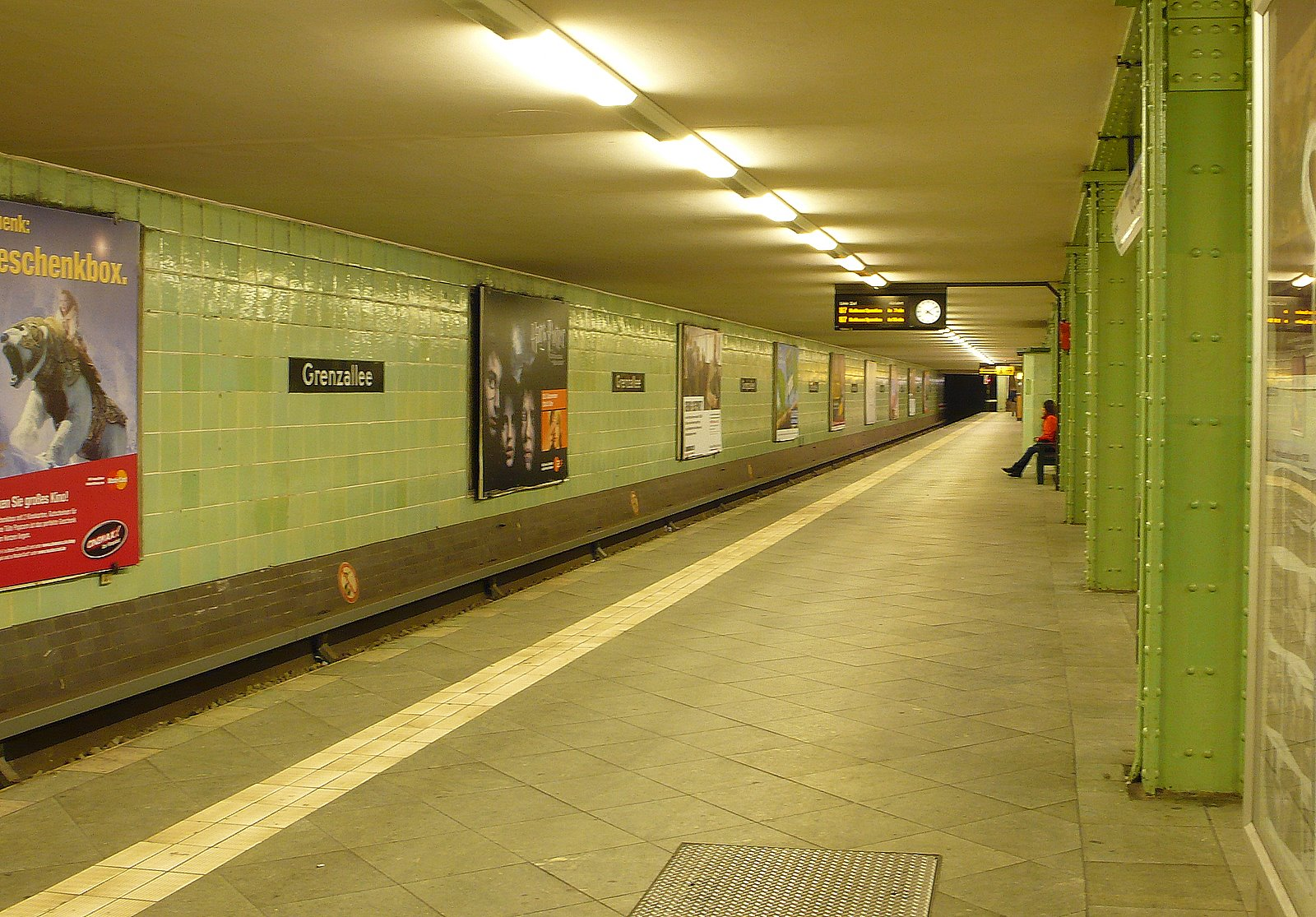 Grenzallee subway station Berlin